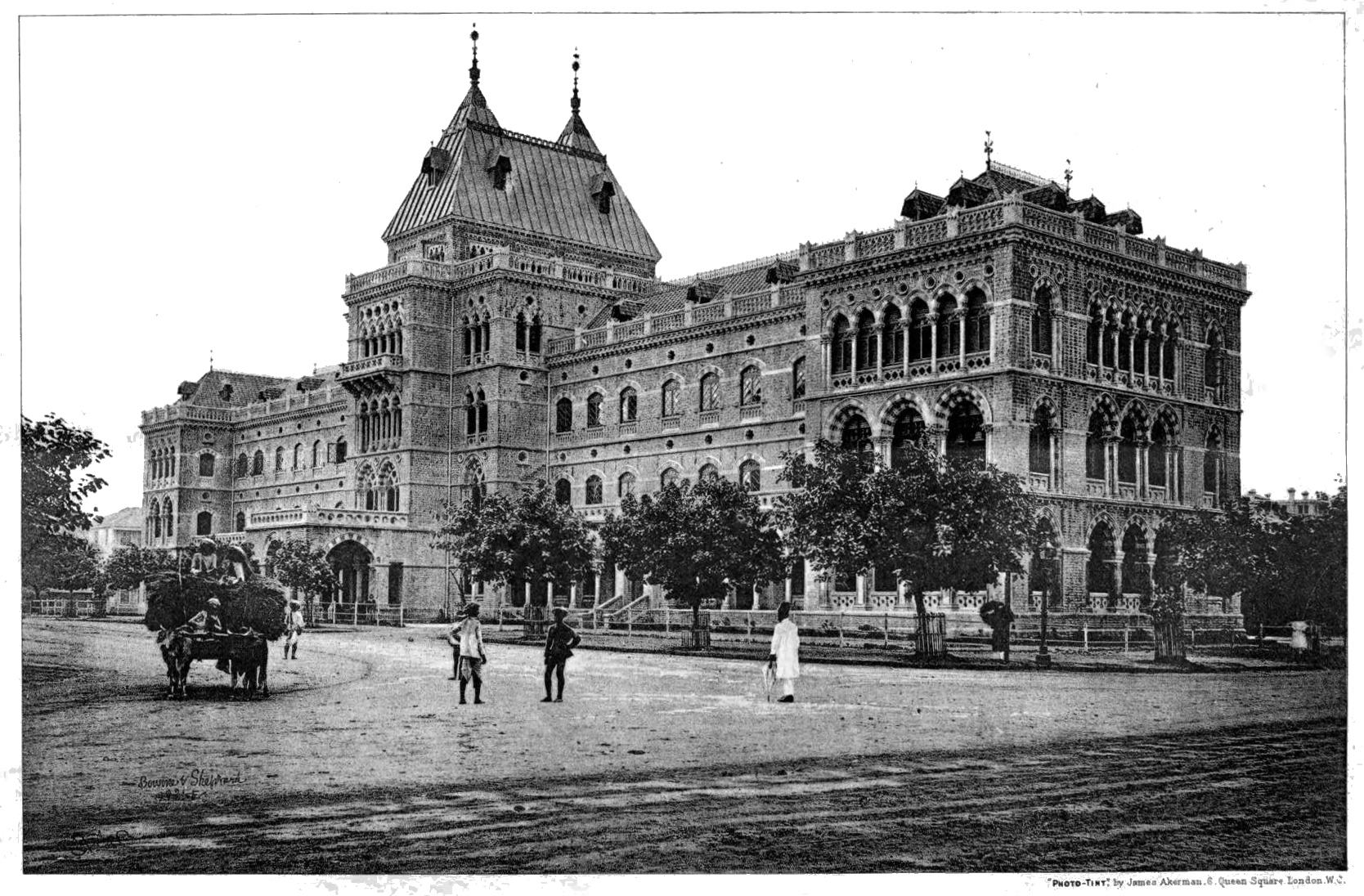 PWD office Bombay. Venetiant Gothic style designed by COlonel H. St. Clair Wilkins. Sanction on 4th May 1869. Supervised by J.A. Fuller, J.H.E. Hart and Wasudew Bapujee Kanitkar. Dressing of Porbunder stone, red and blue basalt.